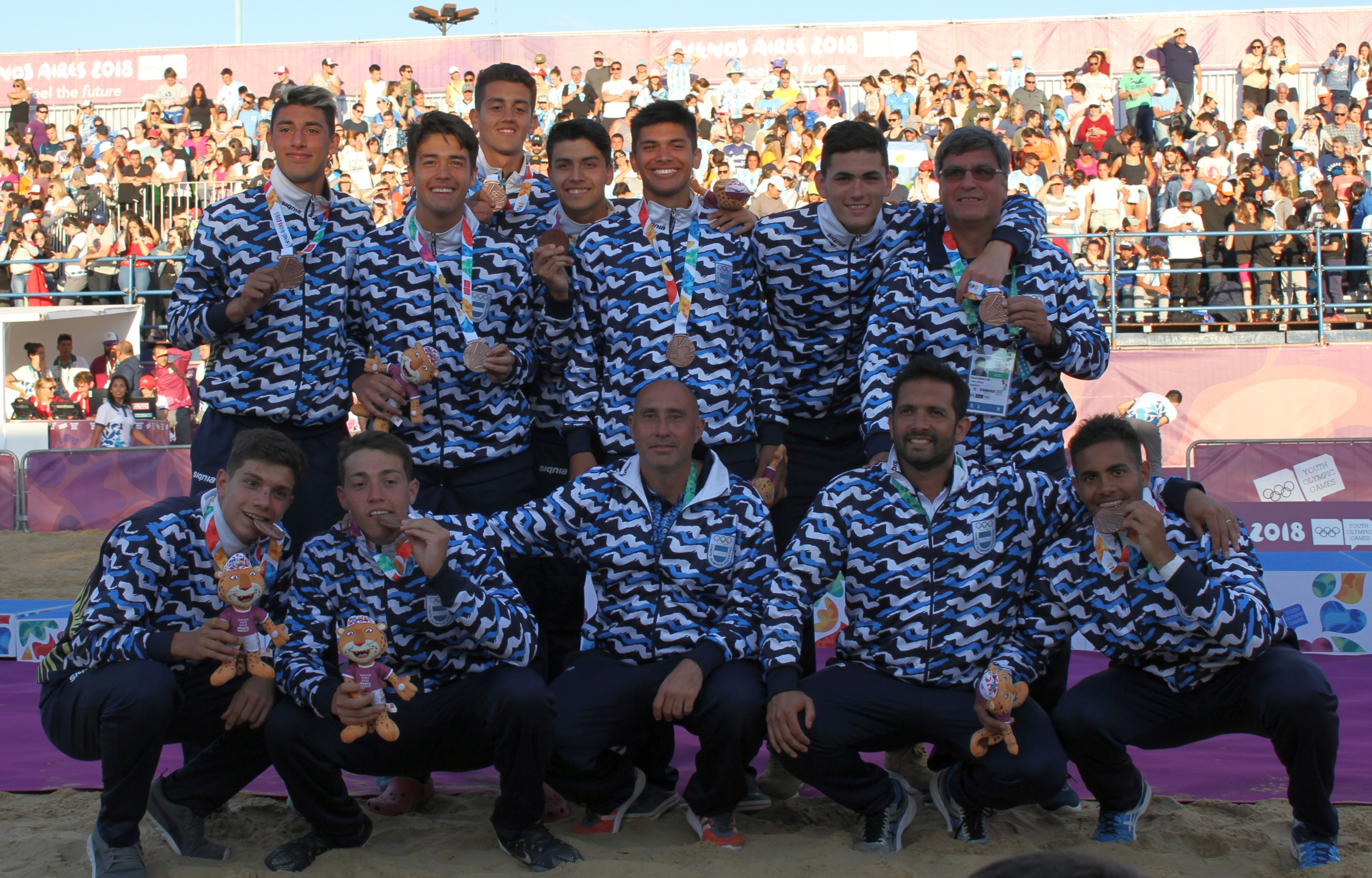 Beach handball at the 2018 Summer Youth Olympics in Buenos Aires at 13 October 2018 – Medal Ceremony Boys - Gold: Spain, Silver: Portugal, Bronze: Argentina